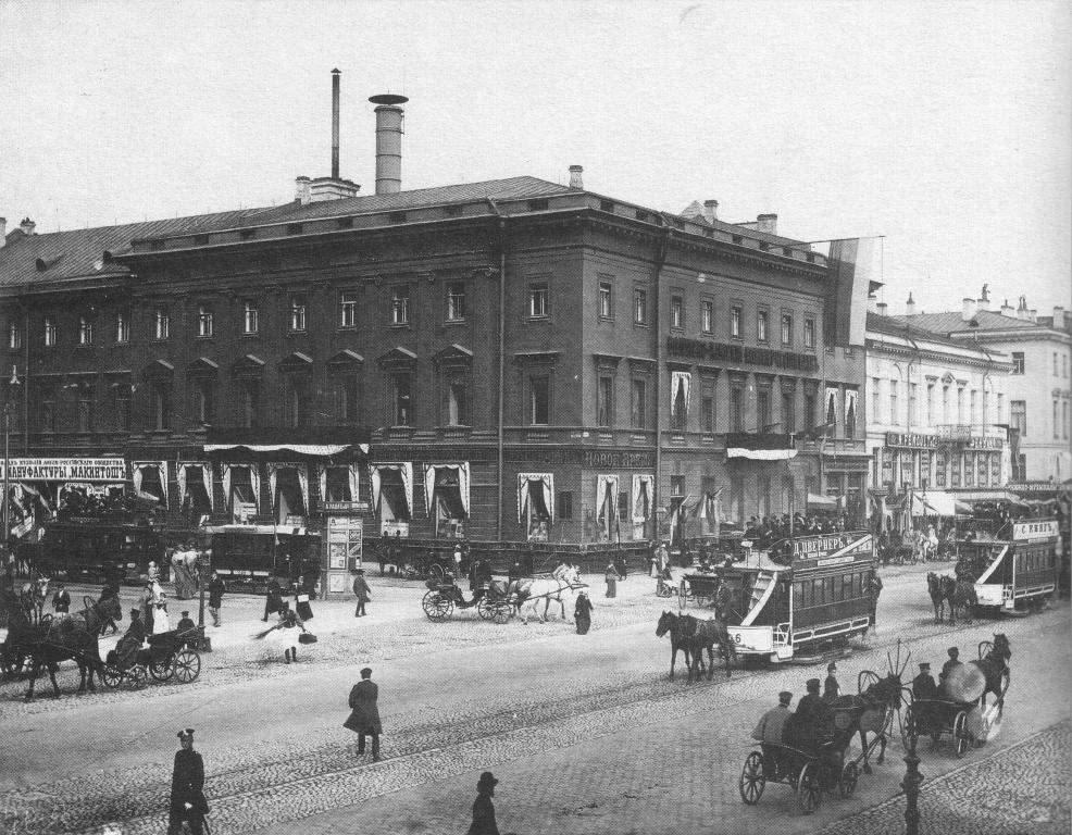 Saint Petersburg (Russia), Nevsky Prospekt. Nevsky prospect and Mikhailovskaya street crossing. View to Voljsko-Kamsky commercial bank. Down floor is occupied by A. S. Suvoring publishing house